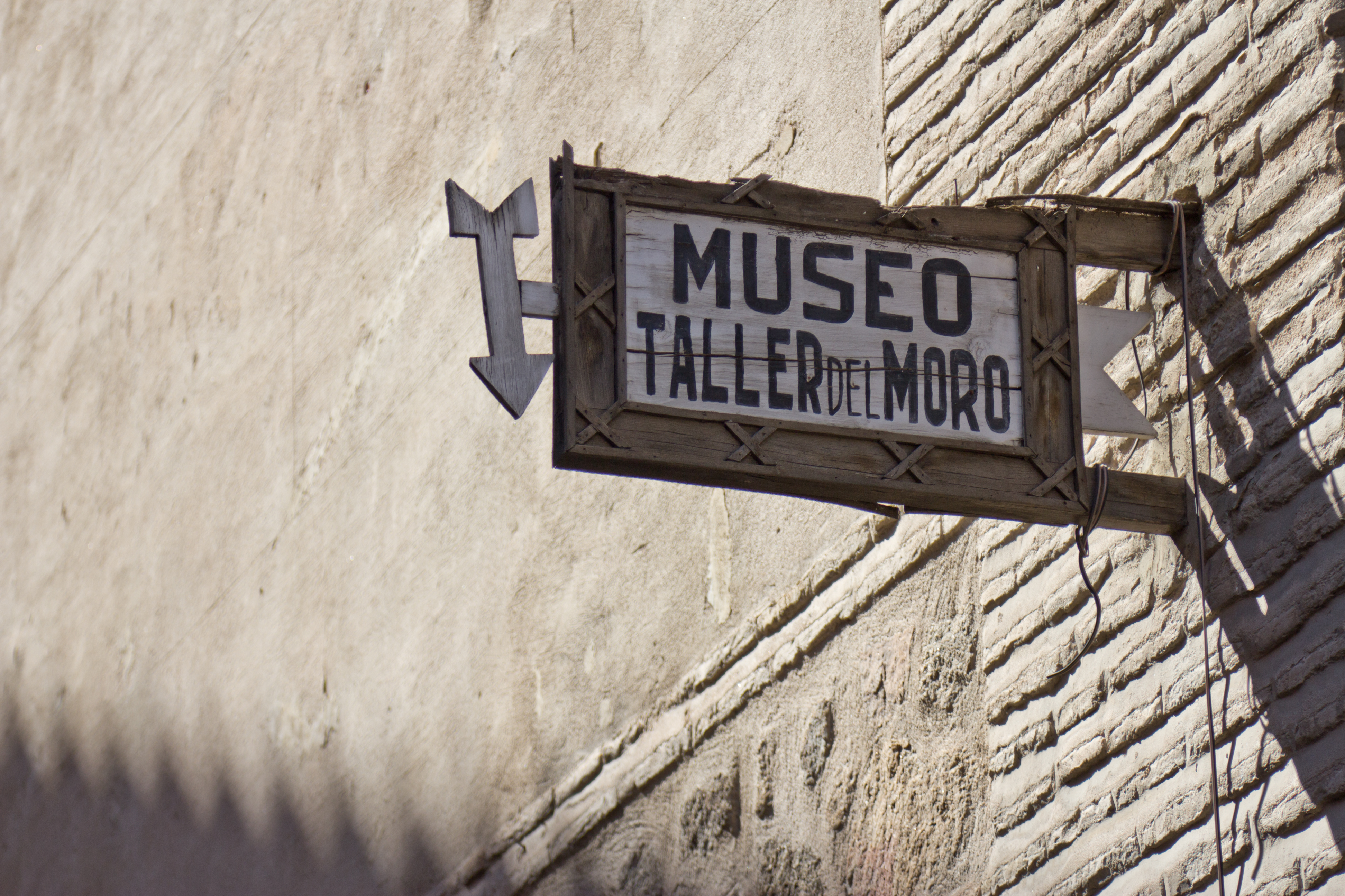 Moor's workshop, Toledo, Spain.